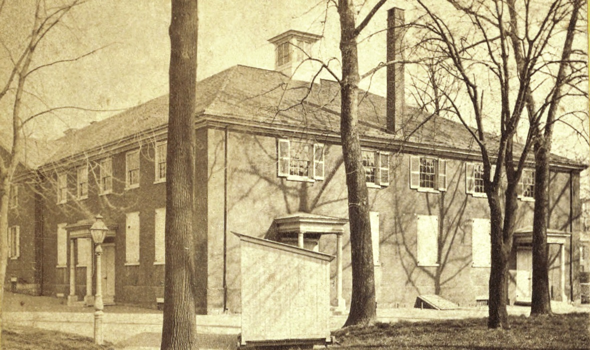 The Arch Street Friends Meeting House in the late 19th century (cropped and adjusted from stereoscopic view)